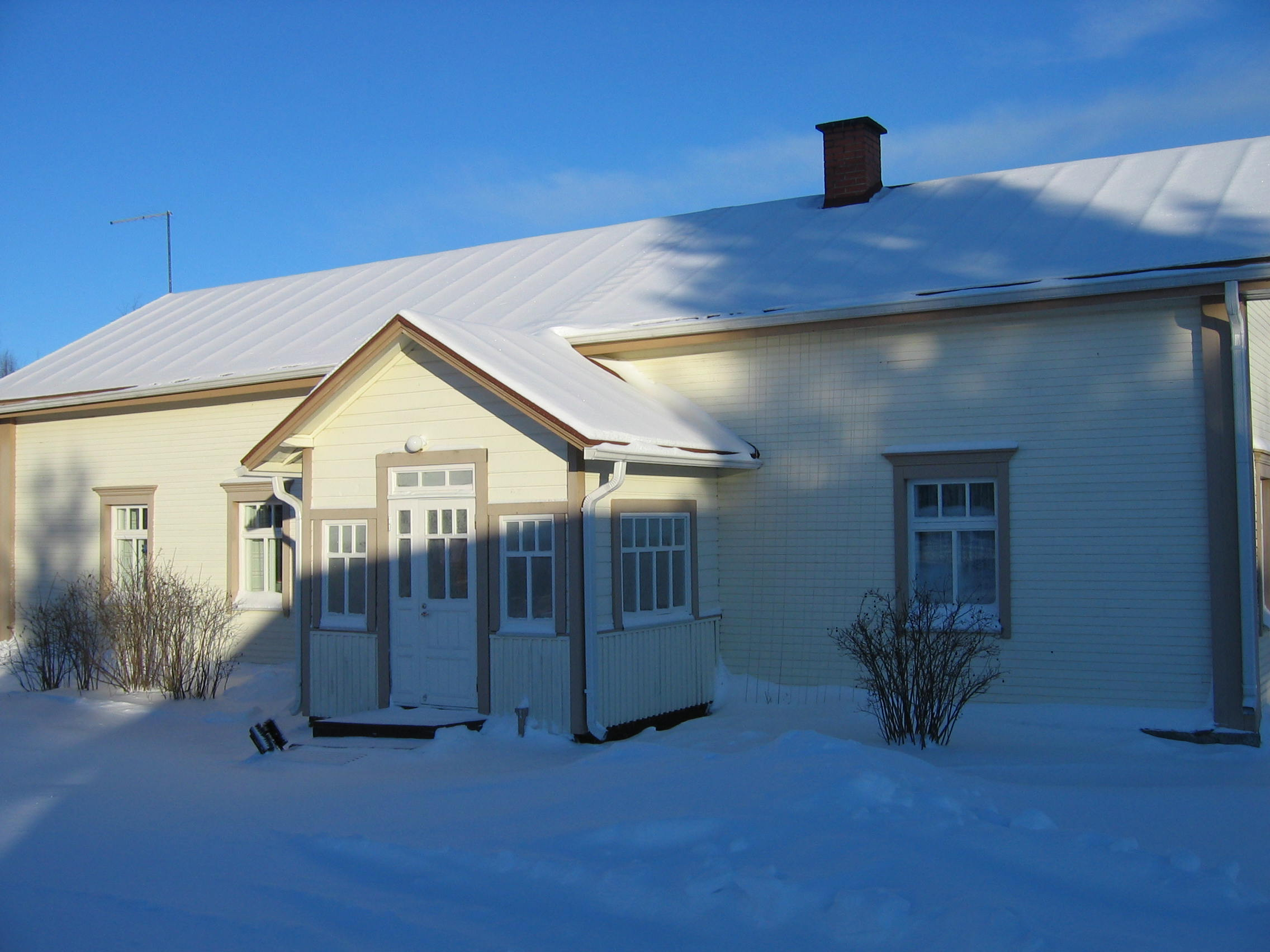 Lahti (formerly Holappa) is one of the oldest houses in Sanginkylä, Utajärvi, Finland